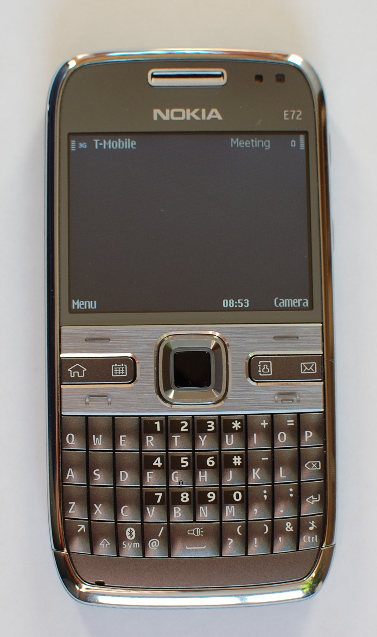 Nokia E72-1 mobile telephone